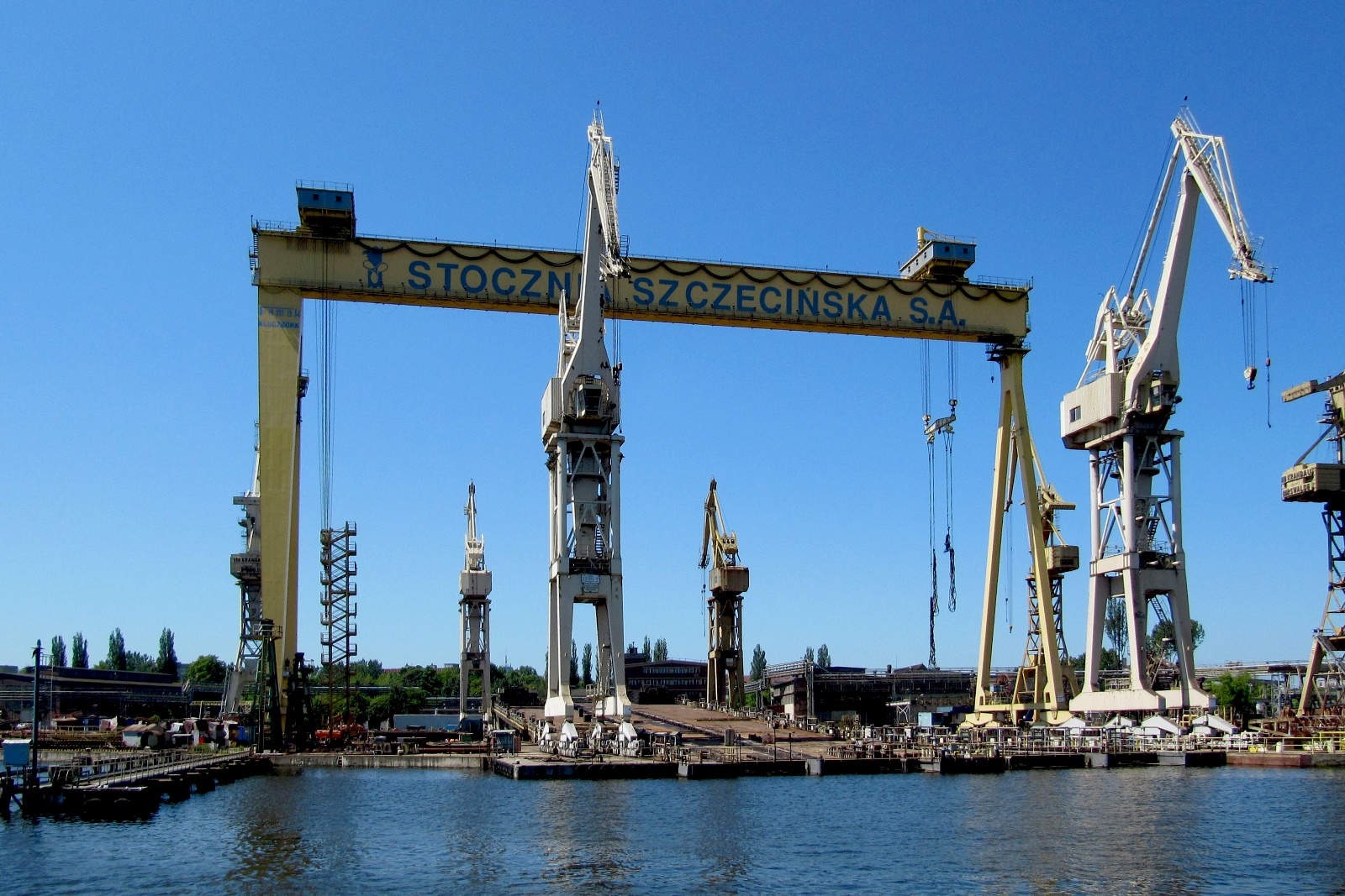 kolaż